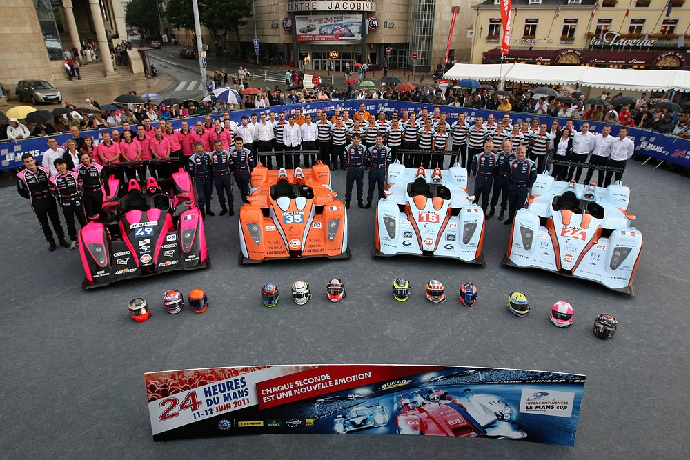 Group photograph of OAK Racing at the 2012 24 Hours of Le Mans.(from left to right)#49 Bertrand Baguette, Dominik Krahaimer, Franck Montagny#35 Matthieu Lahaye, Jacques Nicolet, Olivier Pla#15 David Heinemeier Hansson, Bas Leinders.